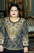 Queen Sirikit of Thailand during Russian President Vladimir Putin's visit in Bangkok, 22 October 2003